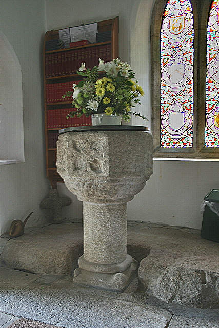 The Font. Old Kea Church The bowl is thought to be 15th century. The large piece of granite in which it is set is half the base of the St. Kea cross that used to stand at the road junction at SW833414.